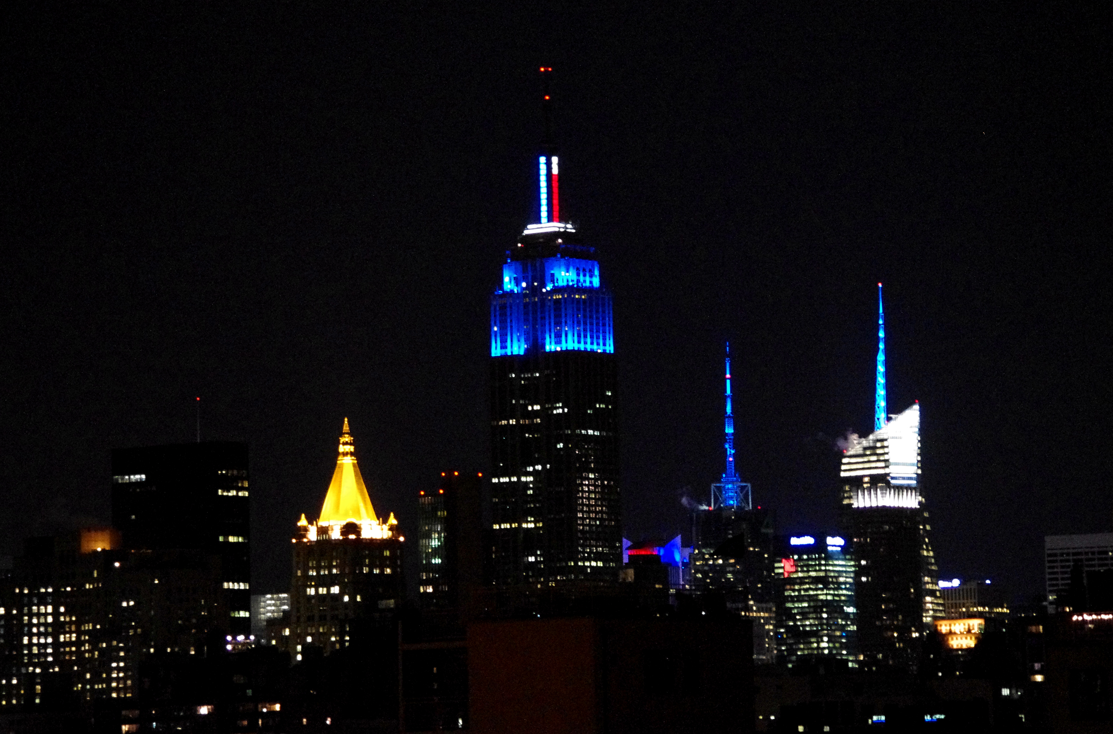 The Empire State Building it blue when CNN called the 2012 U.S. Presidential election for Barack Obama after his projected win in Ohio. Had Romney won the building would have been lit red.